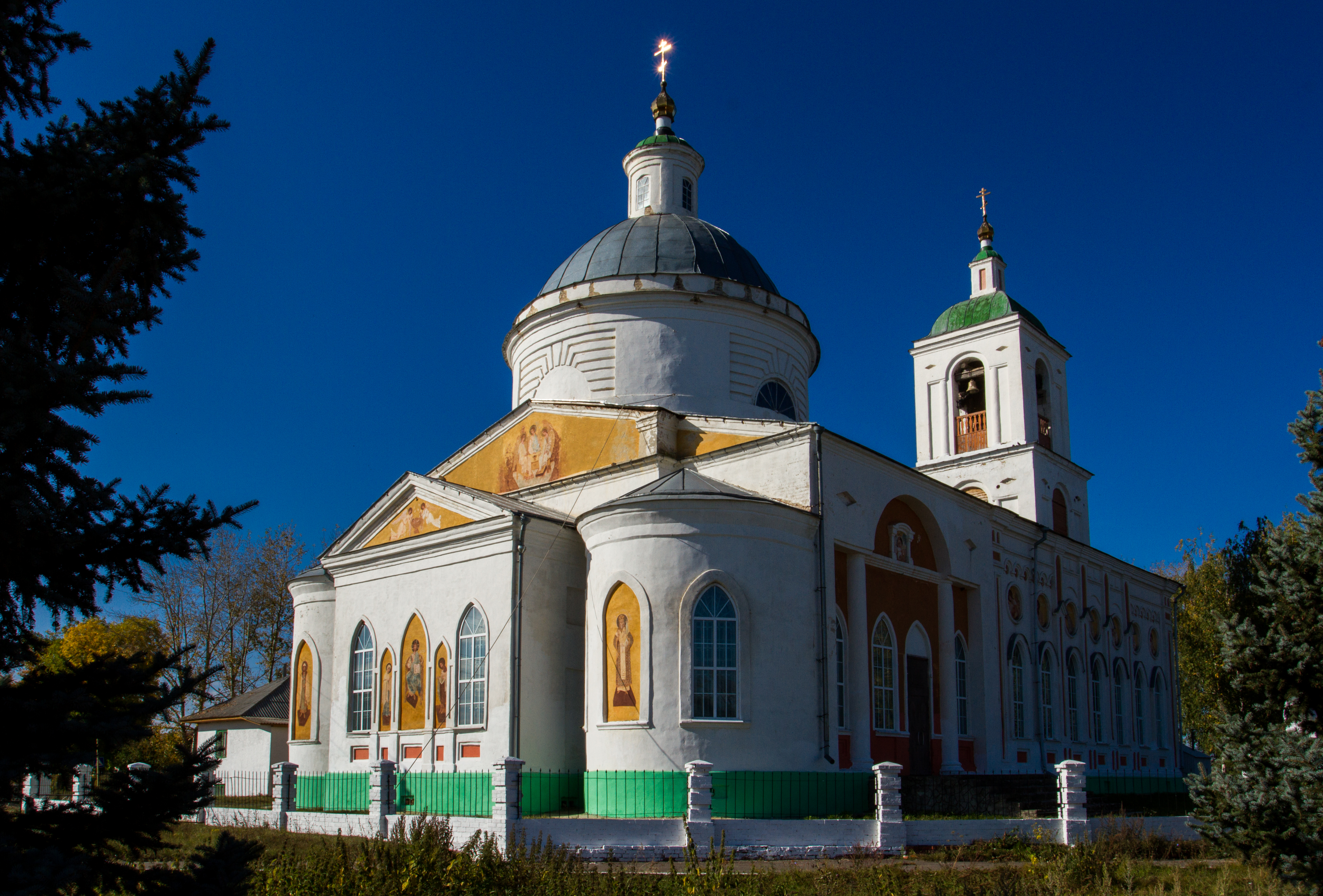 Church of the Nativity : Axel , Temnikovsky District , Mordovia